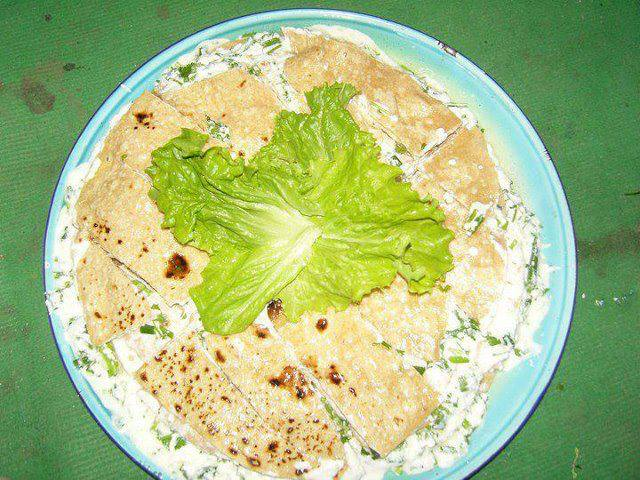 A Chitrali dish of layered flatbreads filled with cheese and herbs.